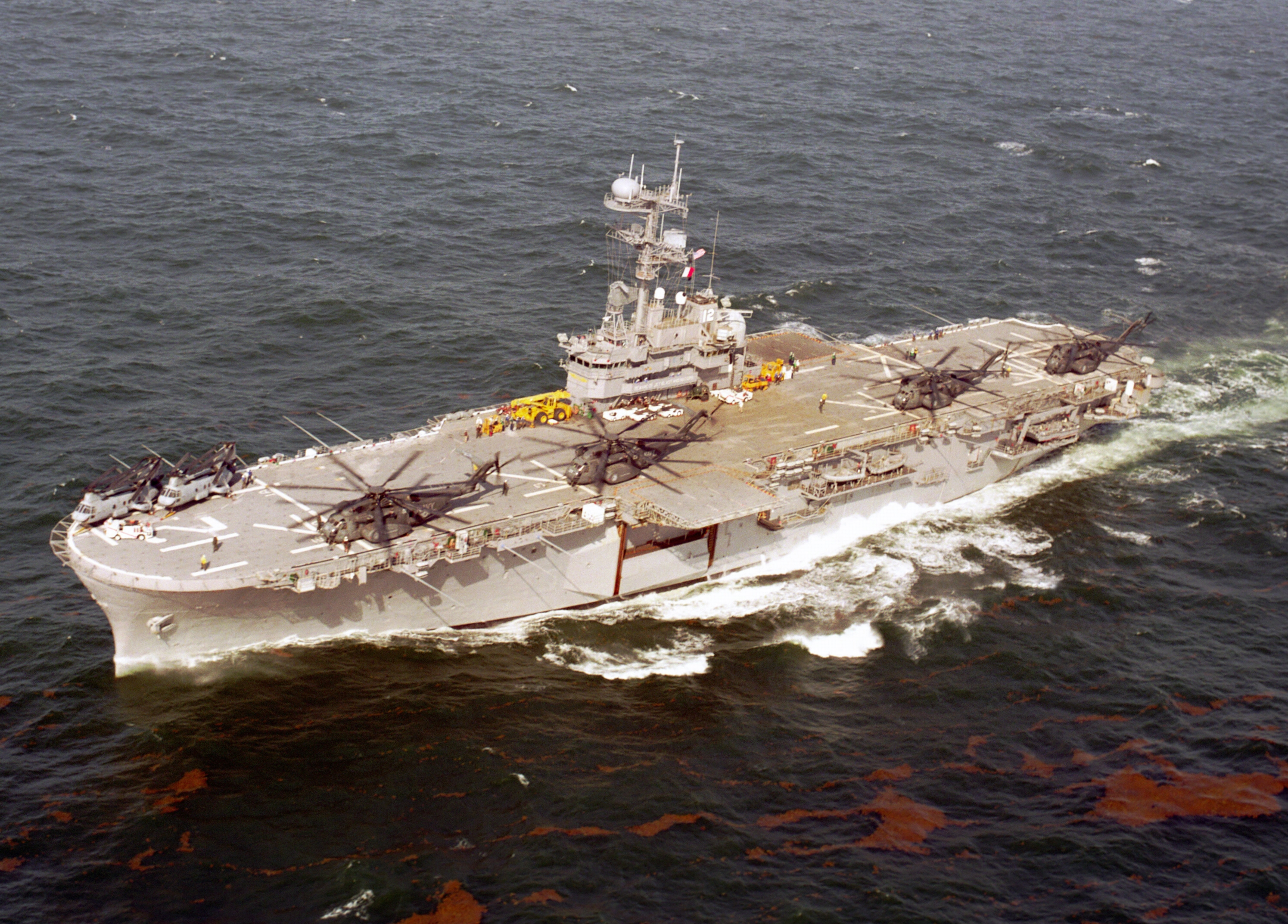 The U.S. Navy mine countermeasure support ship USS Inchon (MCS-12) underway in the Gulf of Mexico. There are two Boeing CH-46 Sea Knight and four Sikorsky MH-53E Sea Dragon helicopters spotted on the flight deck.